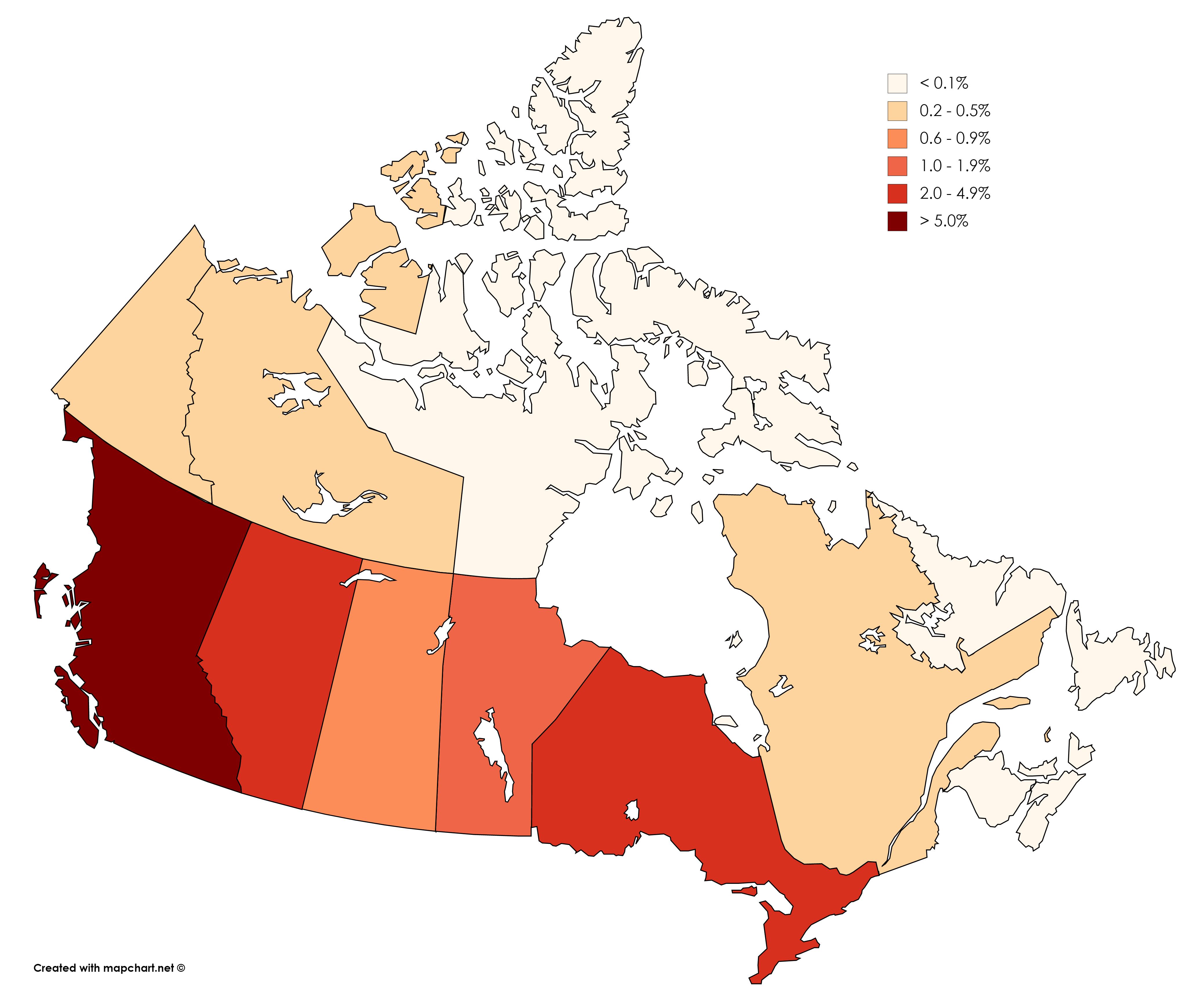 Population distribution of Punjabi Canadians by % of total population by province/territory, 2016 census